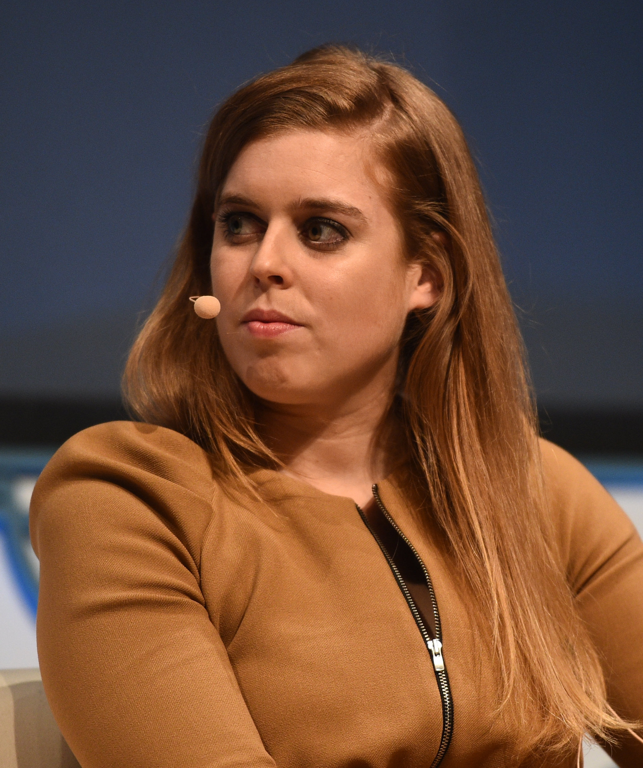 7 November 2018; Princess Beatrice of York, Afiniti, on the Forum stage during day two of Web Summit 2018 at the Altice Arena in Lisbon, Portugal. Photo by David Fitzgerald/Web Summit via Sportsfile